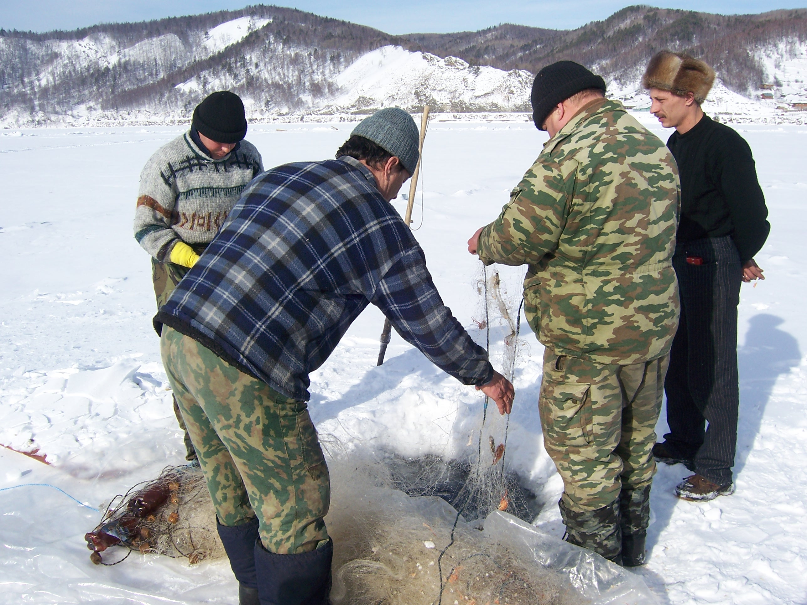 Ice-fishing on Baikal